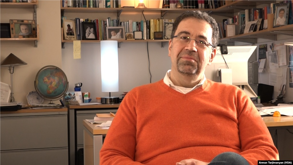 Daron Acemoglu January 2020